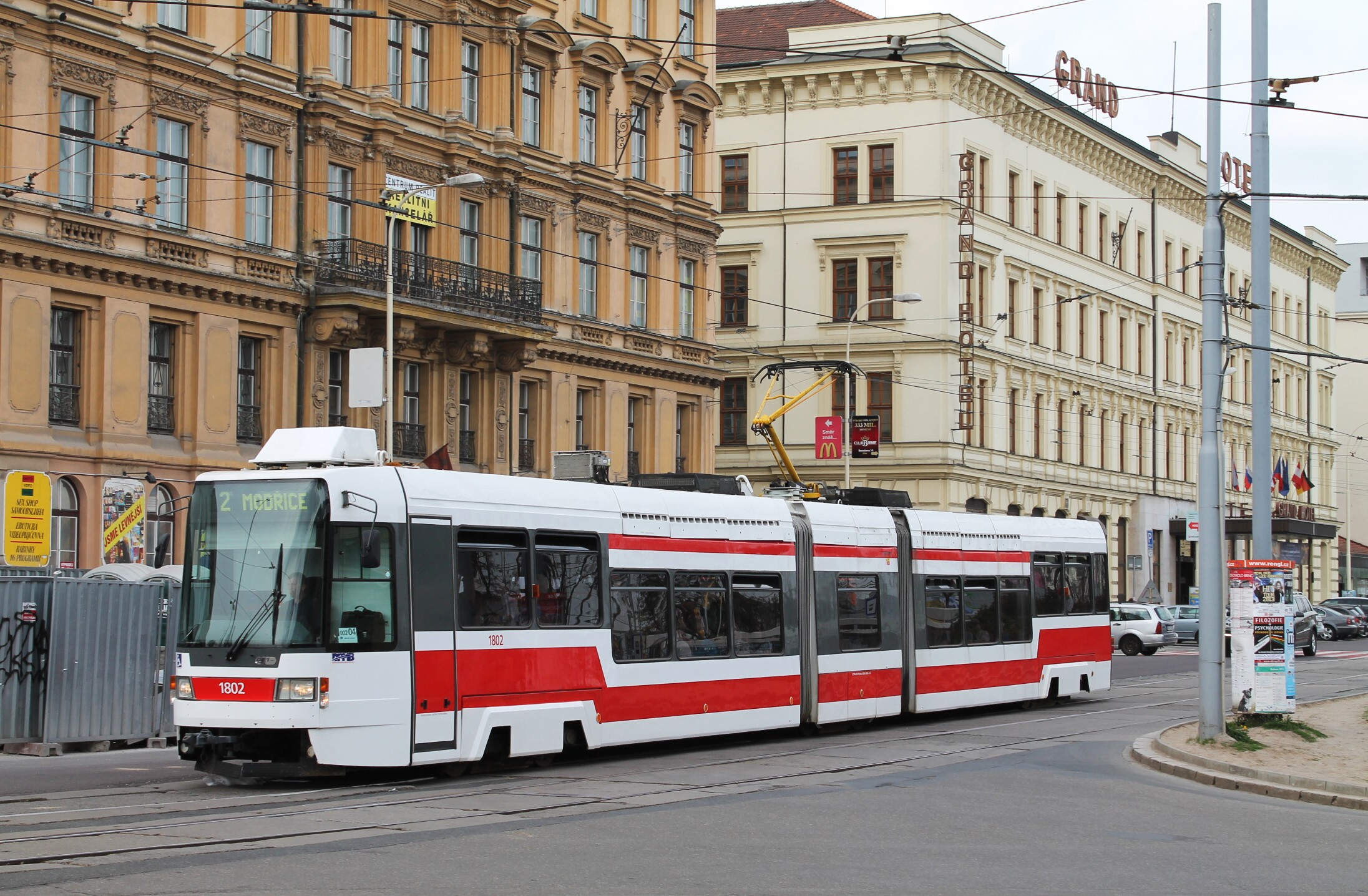 Tatra RT6N1 tram No. 1802, Brno, Czech Republic - Google Maps - Google Earth